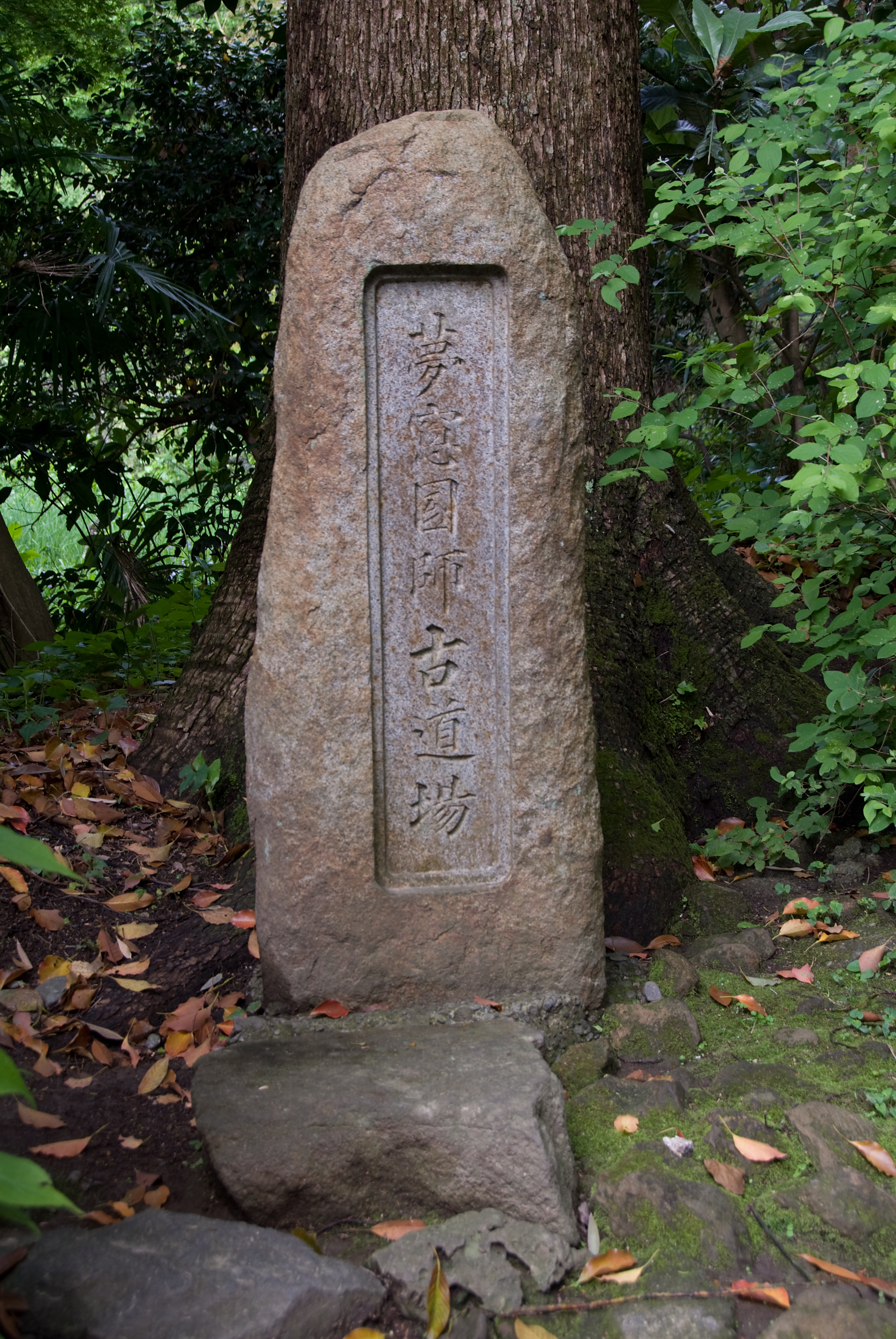 Stele in the garden of Zuisen-ji, Kamakura. It says "Muso Kokushi's Old Road"